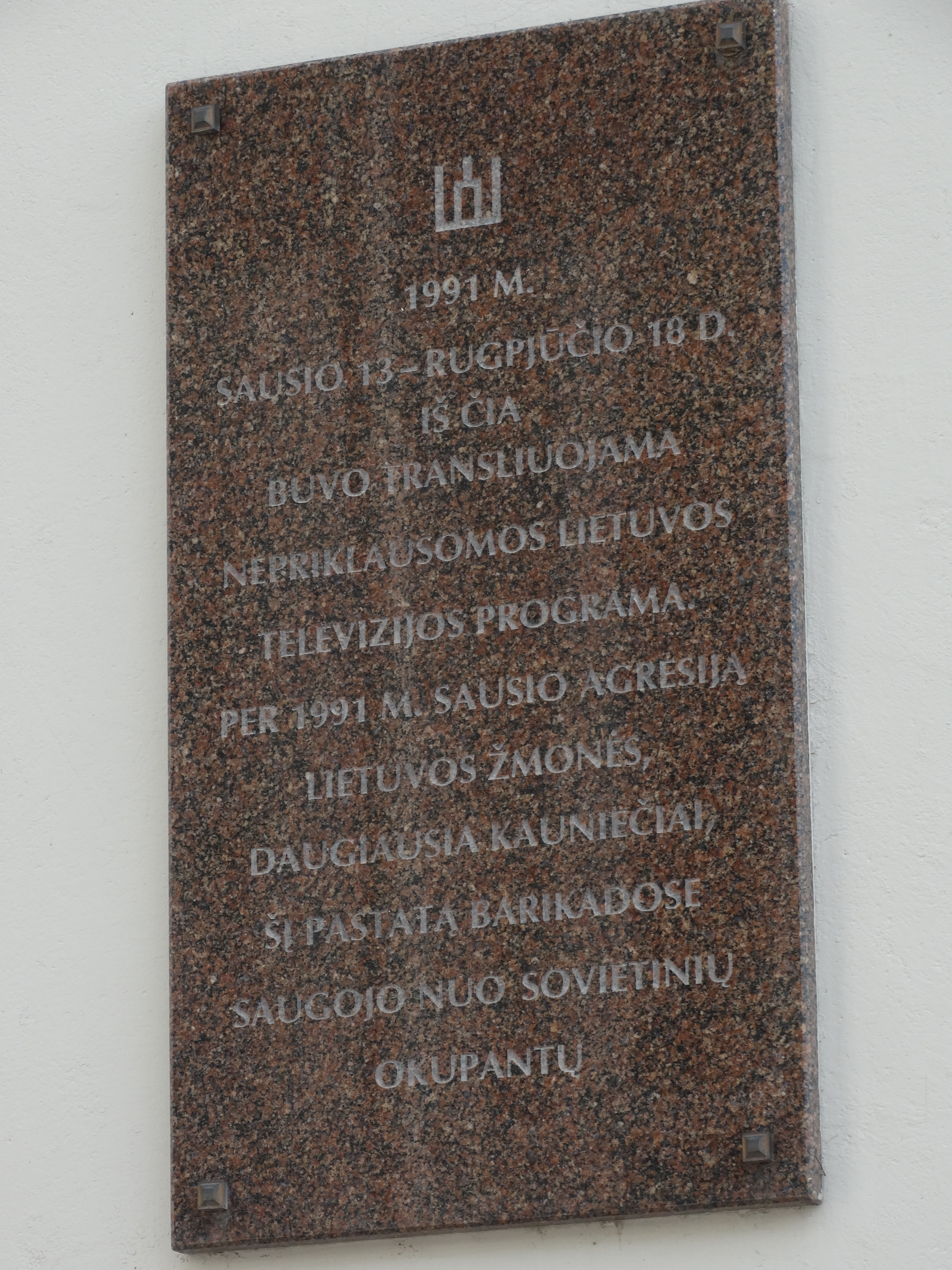 Memorial plaque to independent TV in 1991, Kaunas, Lithuania